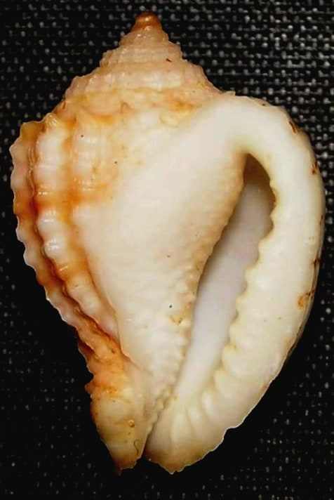 Underside view of the seashell of Morum praeclarum Melvill, 1919[1]. Own collection. Taken in South Africa. Natal.